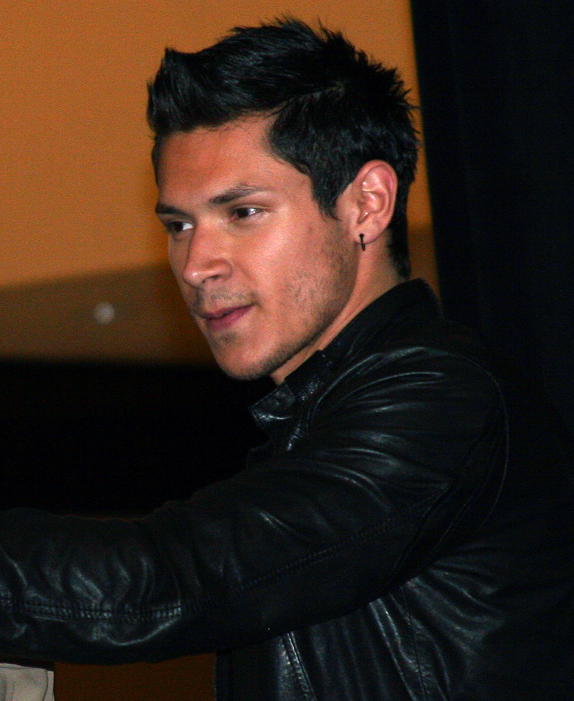 Paparazzo Presents a photo of Alex Meraz ("Paul"), one of the Quileute tribe werewolves from the Twilight Saga: New Moon. This photo was taken at a promotional appearance at the Galleria mall in Houston, Texas on November 10, 2009.